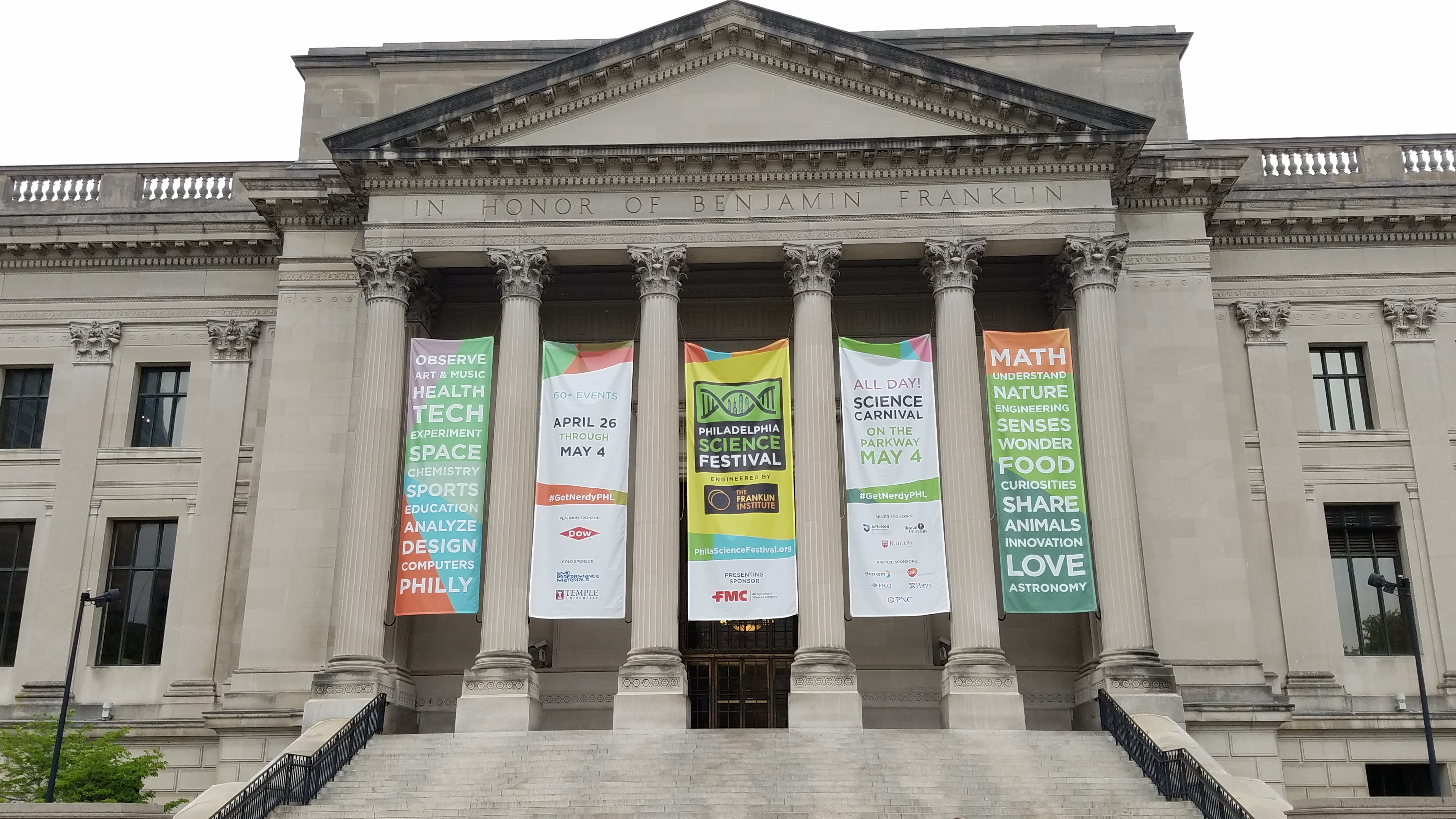 The banners highlighting the 2019 Philadelphia Science Festival are shown on the front facade of The Franklin Institute, the organizing institution.